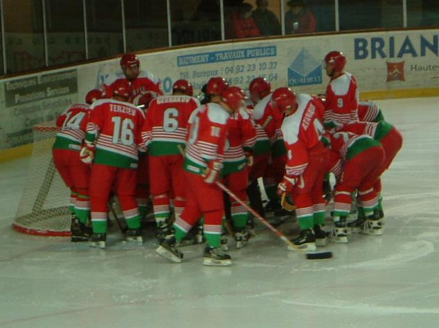 Team Bulgaria. Ice Hockey. Olympic qualification 2004, Briançon, France.